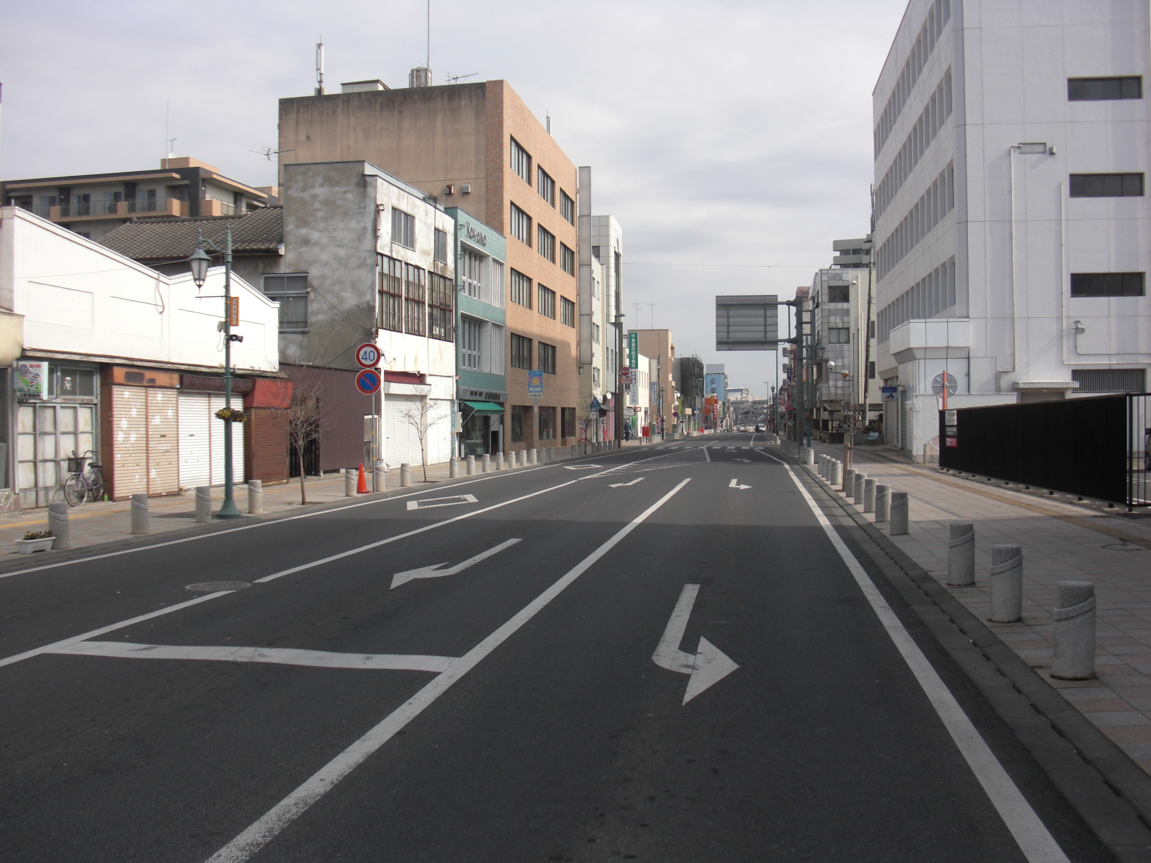 The Ibaraki Prefectural Road Route 277 (aka Miyuki Street or Hachiken Road) in Ishioka City